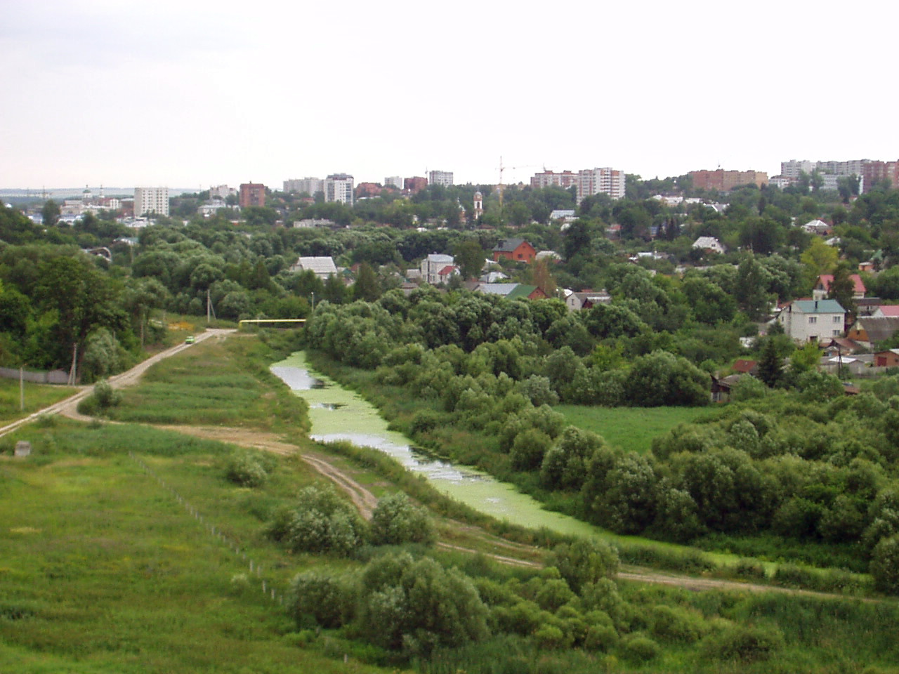 General view of Kursk city, Russia